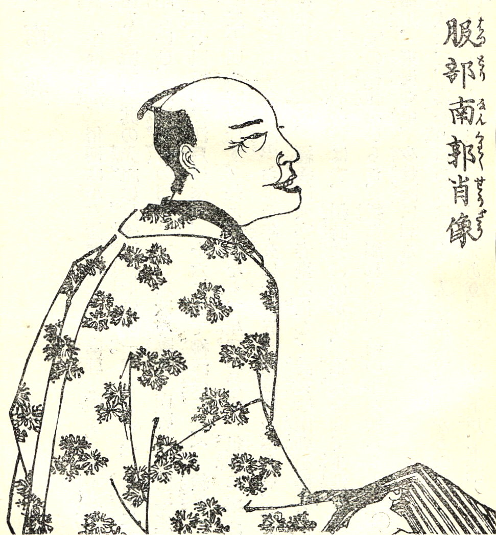 Hattori Nankaku(服部 南郭、November 12, 1683 - July 15, 1759）was a Chinese poet,Confucian,and painter of Japan in the middle edo period.He was also known leading disciple of Ogyū Sorai(荻生徂徠).